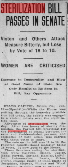 The sterilization bill barely passes by a few votes.